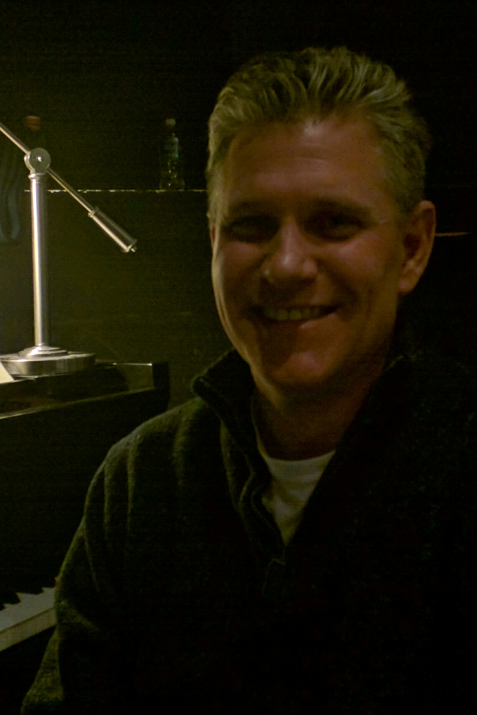 Martin Ellis at Gresham High School (2017)